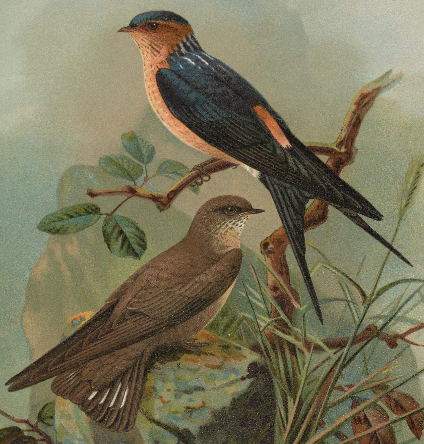 1. Cecropis daurica (rufula) - Alpenschwalbe 2. Ptyonoprogne rupestris - Felsenschwalbe